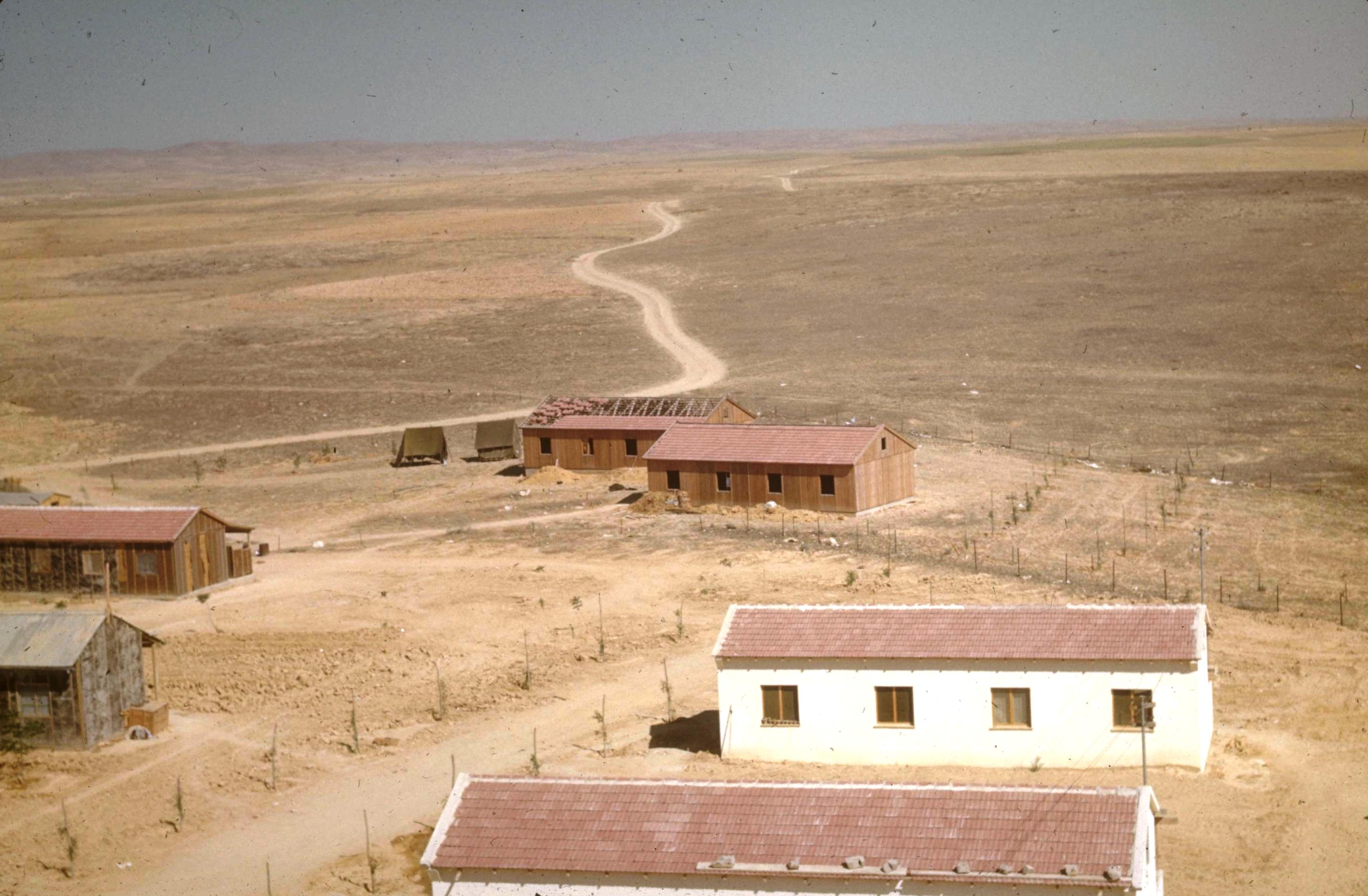 KIBBUTZ "MISHMAR HANEGEV" IN THE NEGEV.